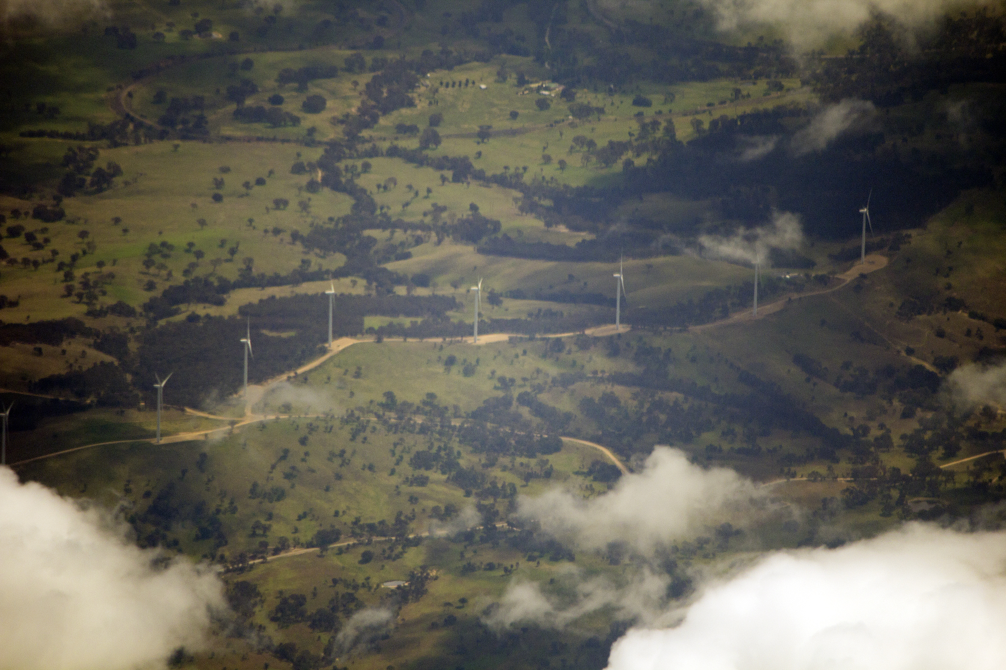 Crookwell Wind Farm viewed from the air.